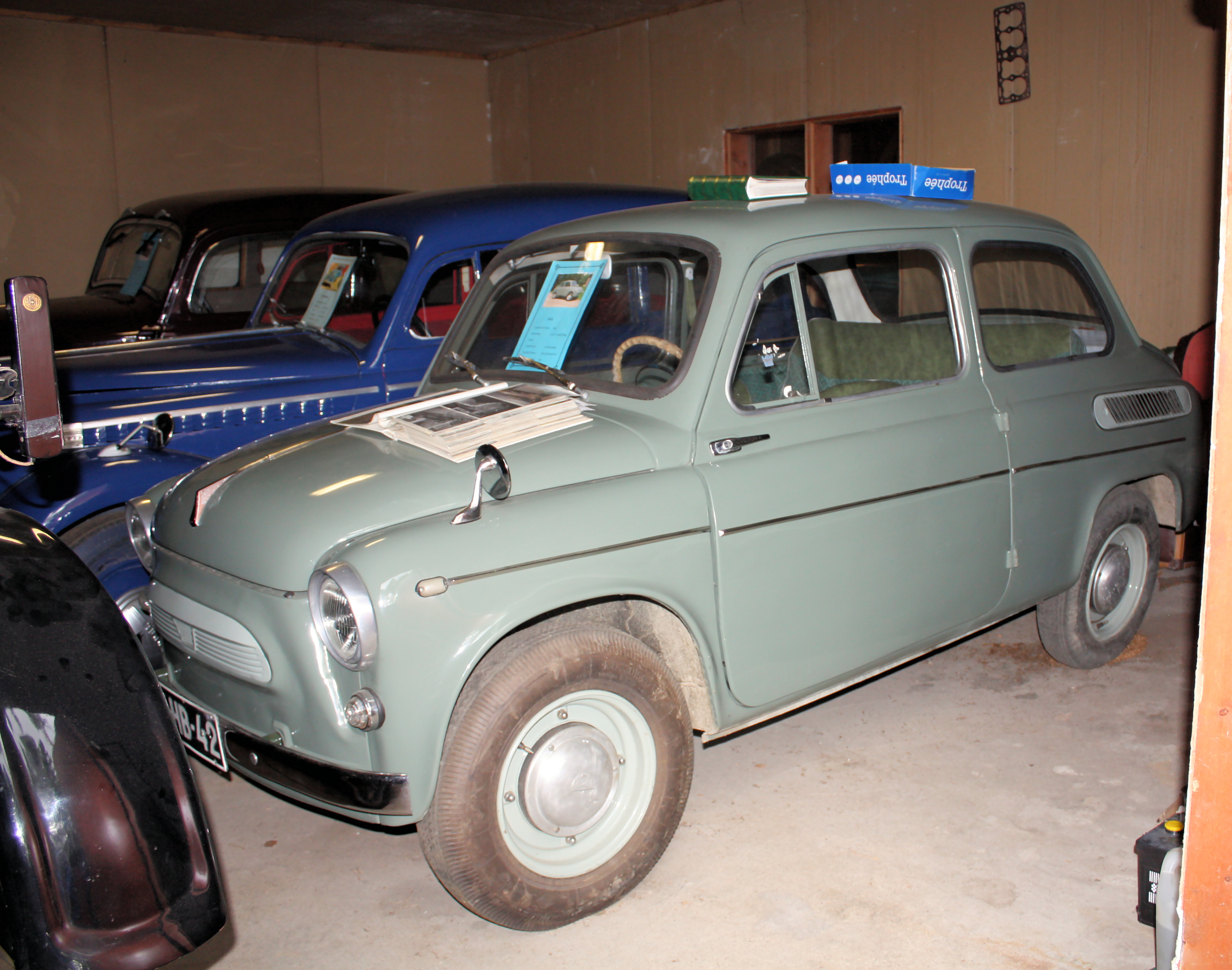 Jakola Car Museum in Pylkönmäki, Central Finland.